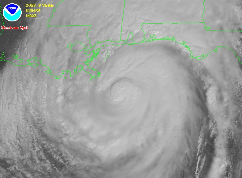 Hurricane Opal approaching Pensacola, Florida on October 4, 1995.